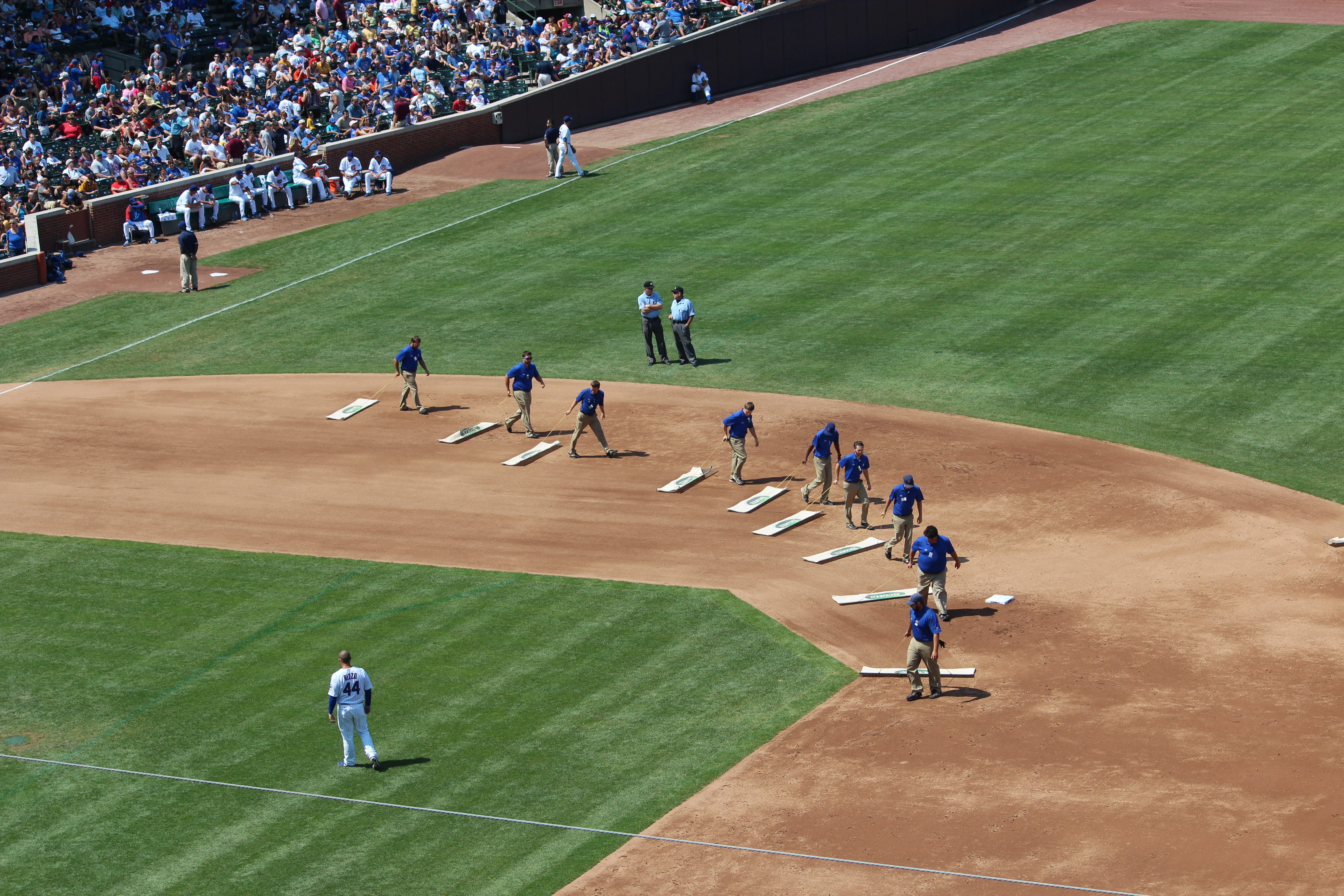 Wrigley Field groundscrew